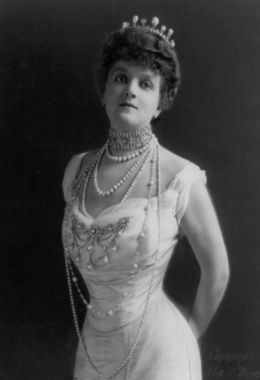 Title: Mrs. George Jay Gould Abstract/medium: 1 photographic print.